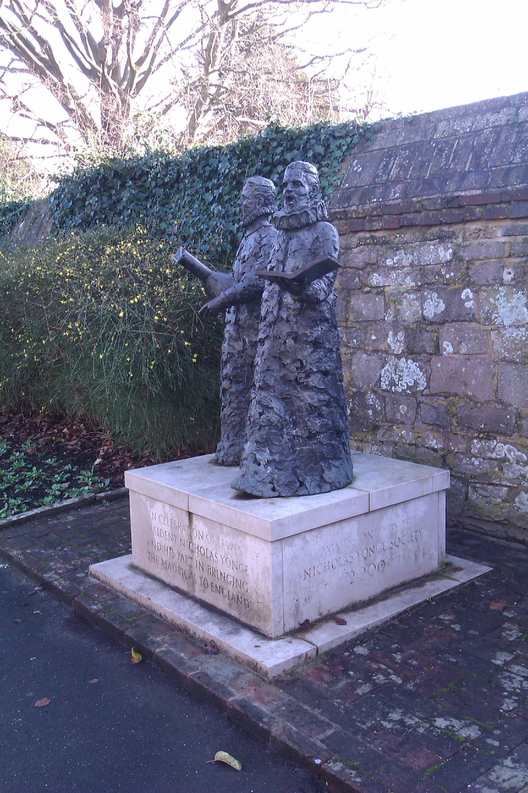 Public Sculpture. Plinth signifies 'commissioned by the Nicholas Yonge Society in 2000'